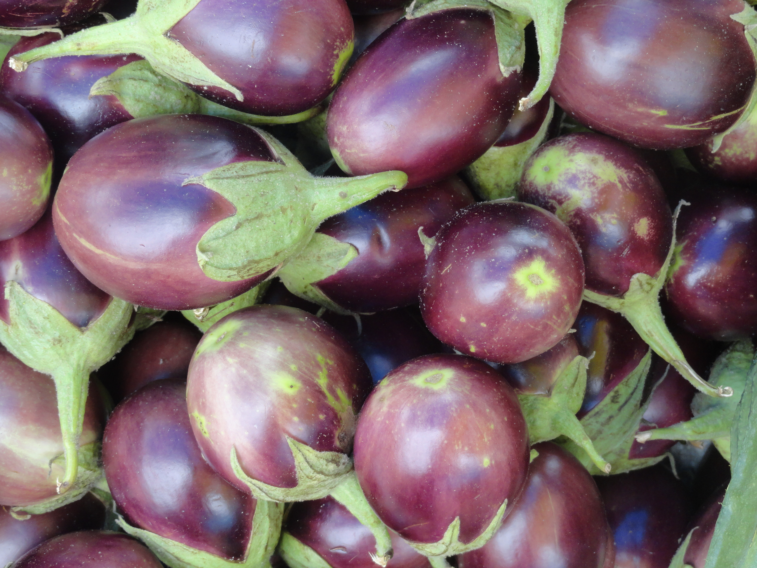 వంకాయలు లొ ఇదొక రకం.